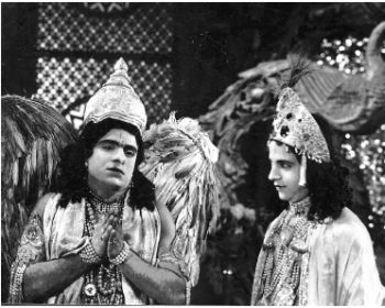 A still from Garuda Garvabhangam